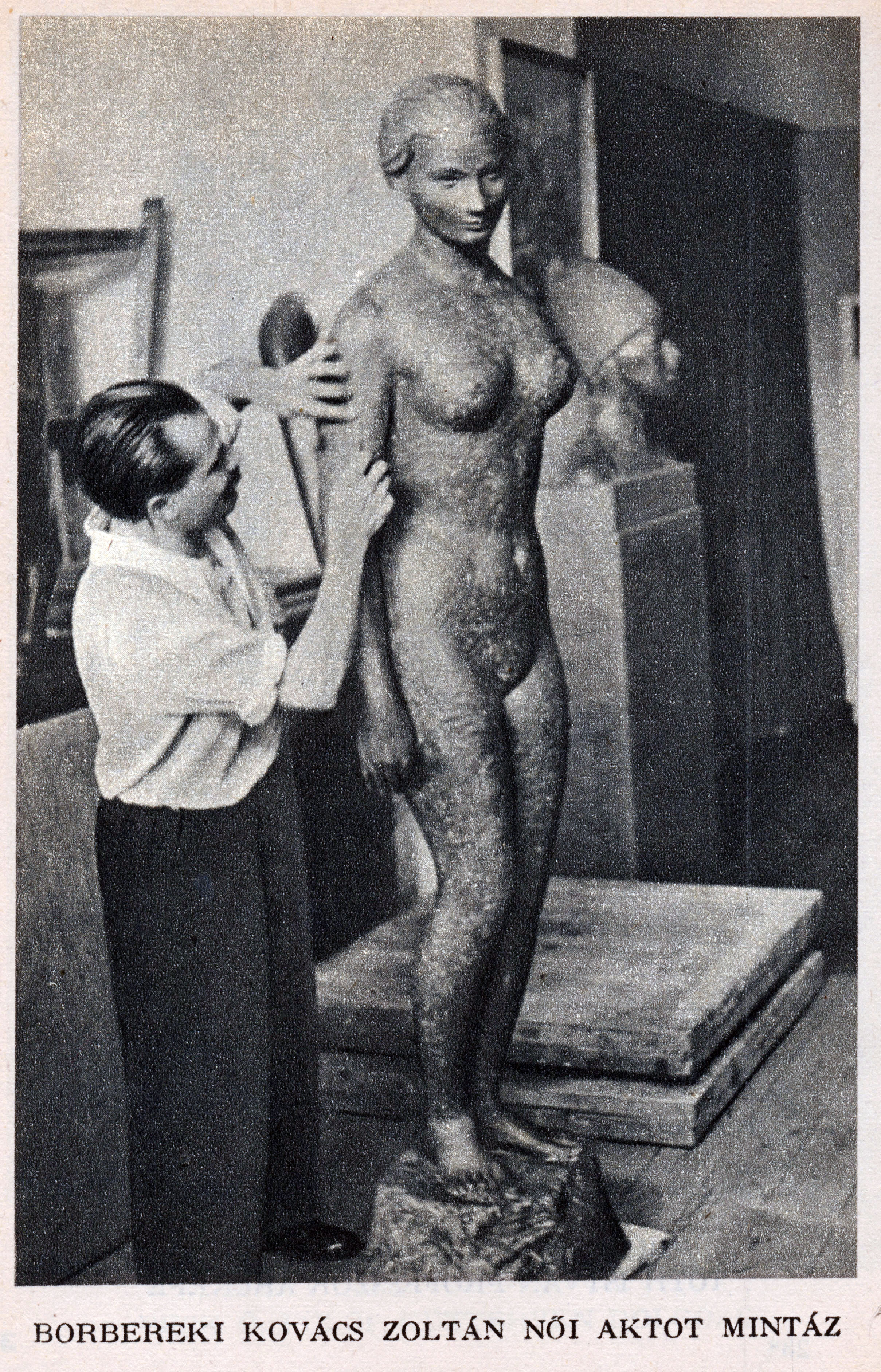 Zoltan Borbereki Kovacs Hungarian sculptor - during sculptures